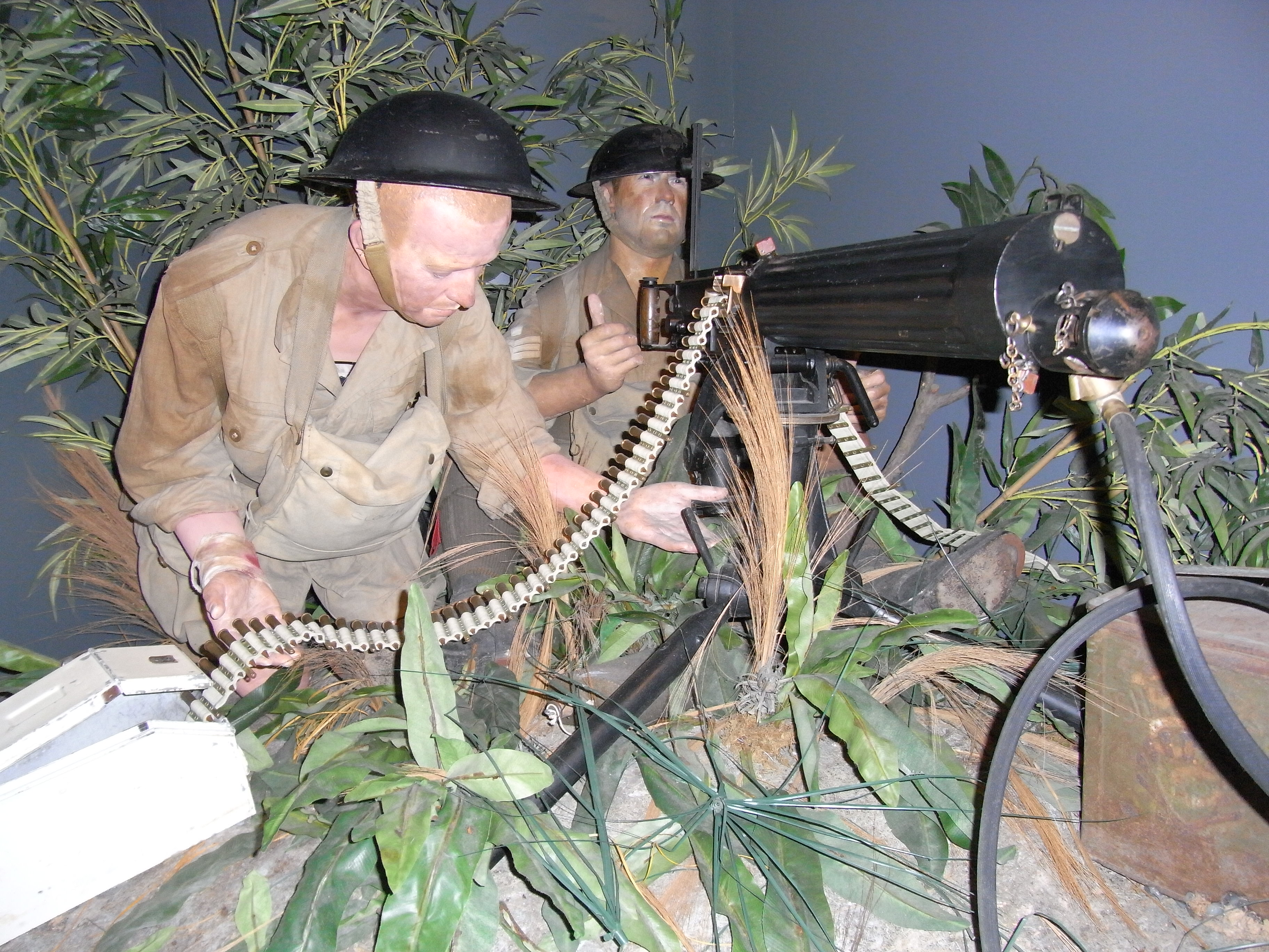 Lasting Honour, Hong Kong 24-Dec-1941, exhibit - Hong Kong Museum of Coastal Defence, HKMCD, Shau Kei Wan, Hong Kong